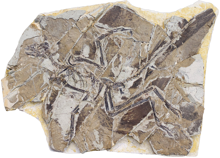 Fossil specimen of Anchiornis huxleyi, YFGP-T5199.